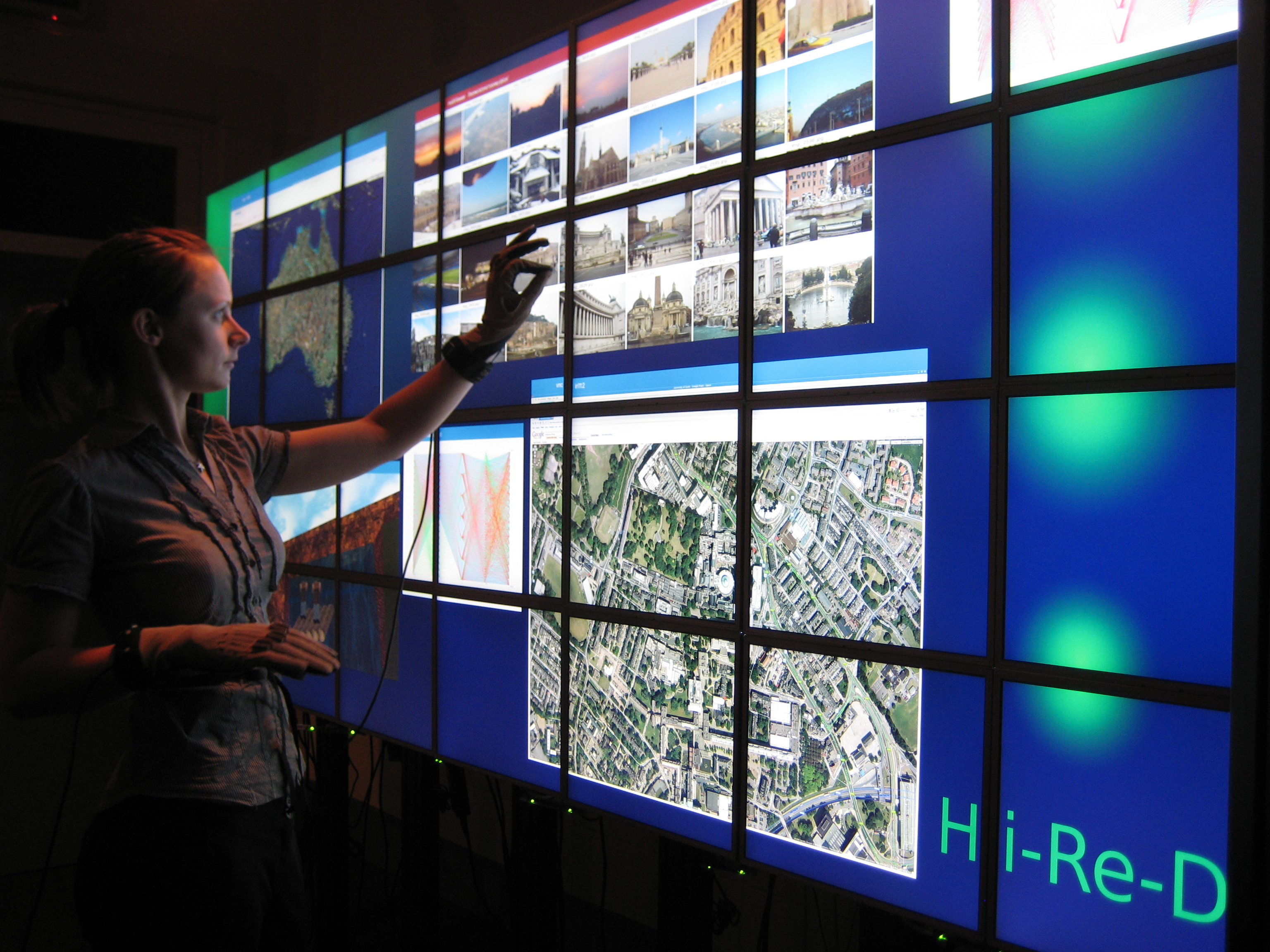 A user performing gesture interactions with a Powerwall display at the University of Leeds